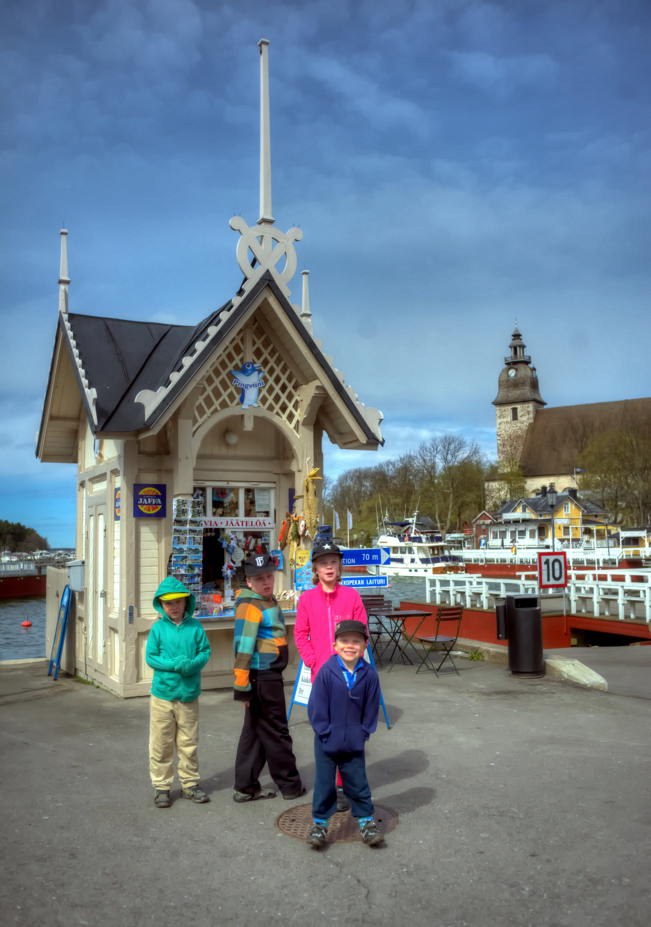 Naantali Old Town